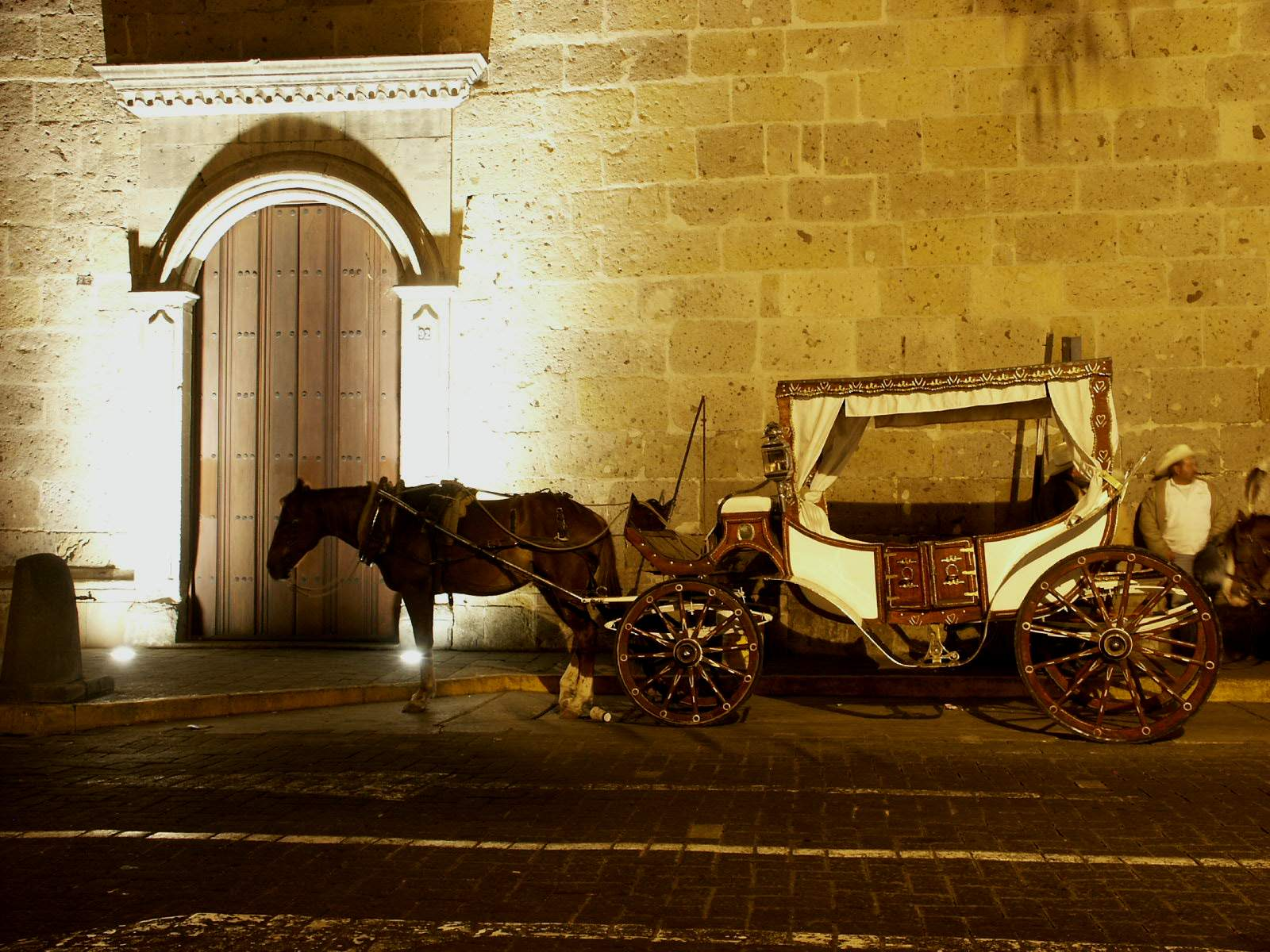 Image of a part of the facade of the regional Museum of Guadalajara, Jalisco, Mexico. In center of the city with one of the traditional calandrias (barouche) and its conductor